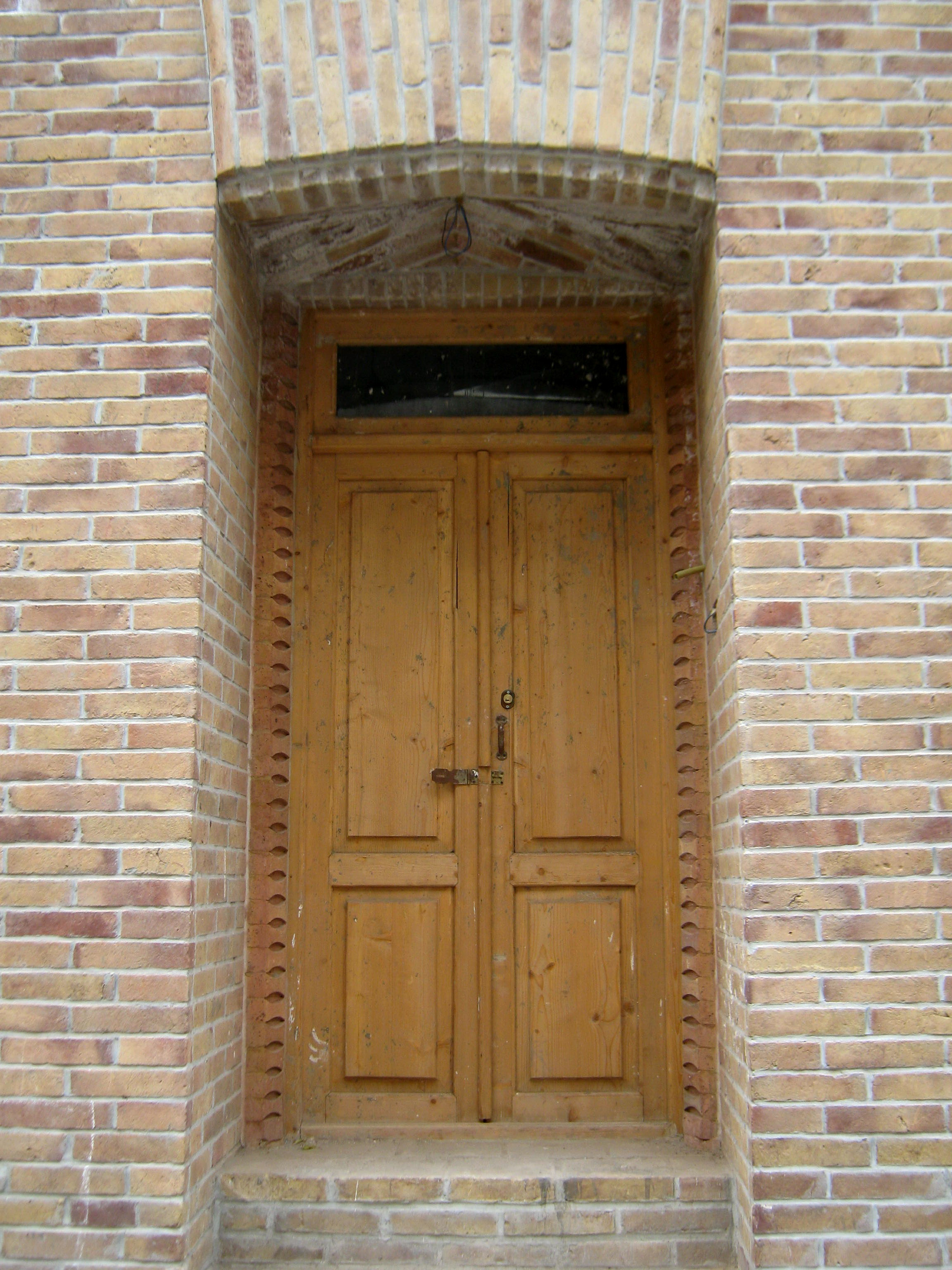 Culture office of Nishapur - Imam Khomeini 7 st